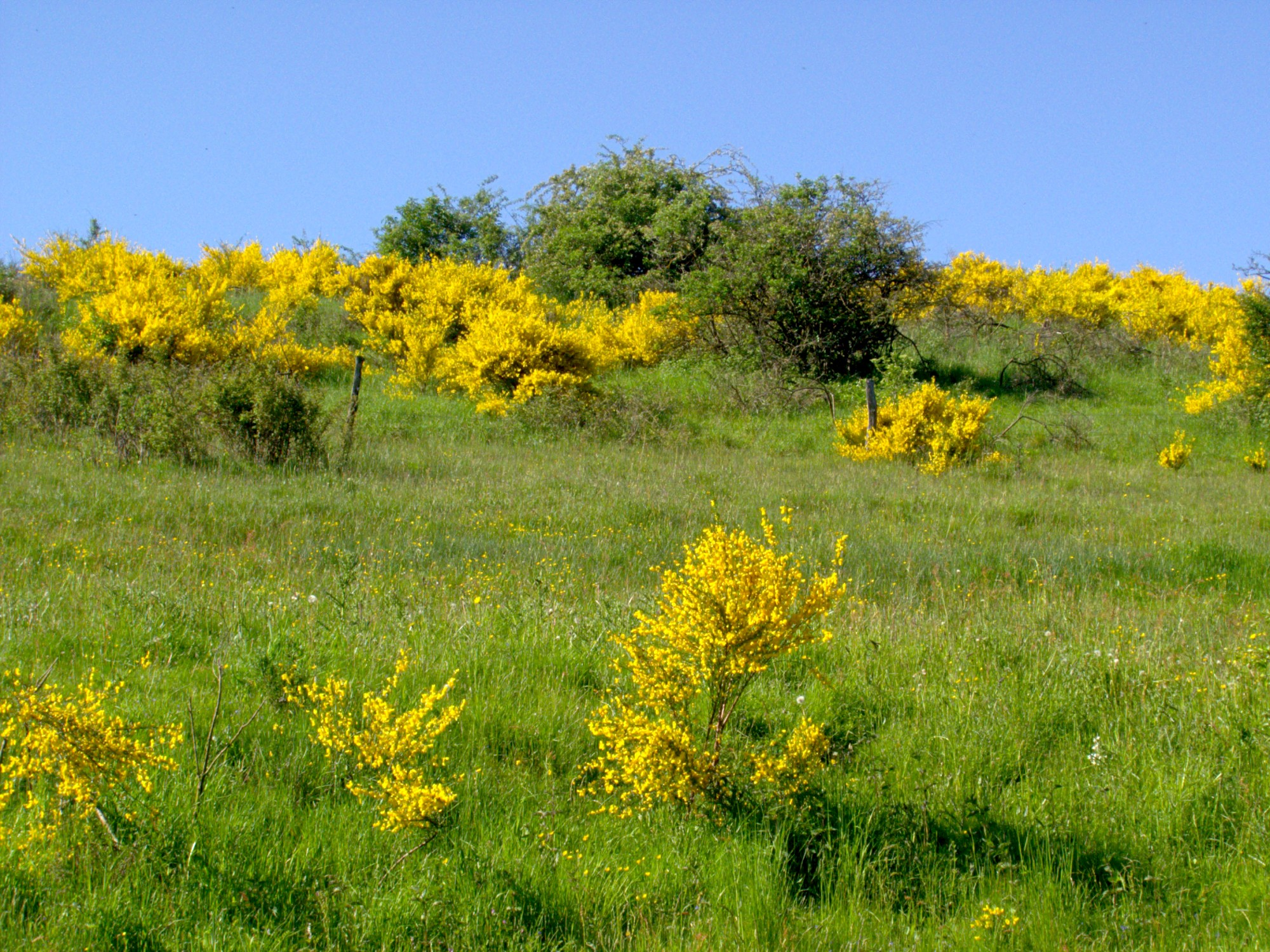 Name: Cytisus scoparius. Family: Fabaceae. Location: Nettersheim, Eifel, NRW, Germany